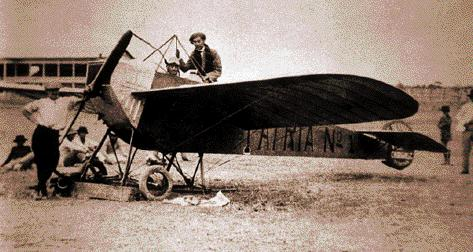 "Patria No1" first Ecuadorian aircraft at Guayaquil